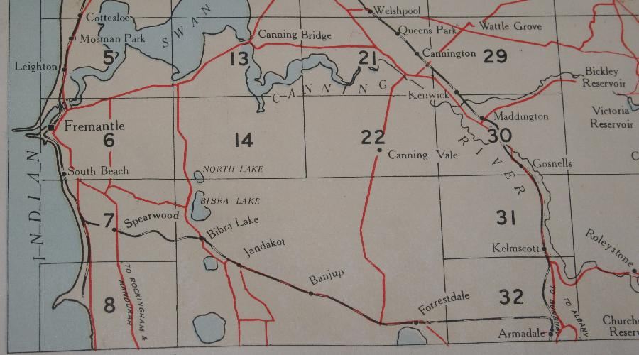 Scan of 1952 street directory showing railway from Fremantle to Armadale